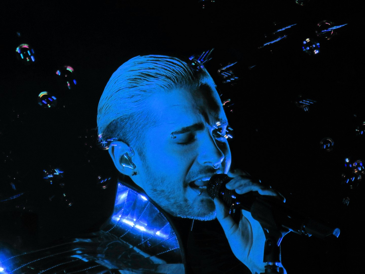 Bill Kaulitz performing under blue light at the Volkshaus in Zurich, Switzerland.